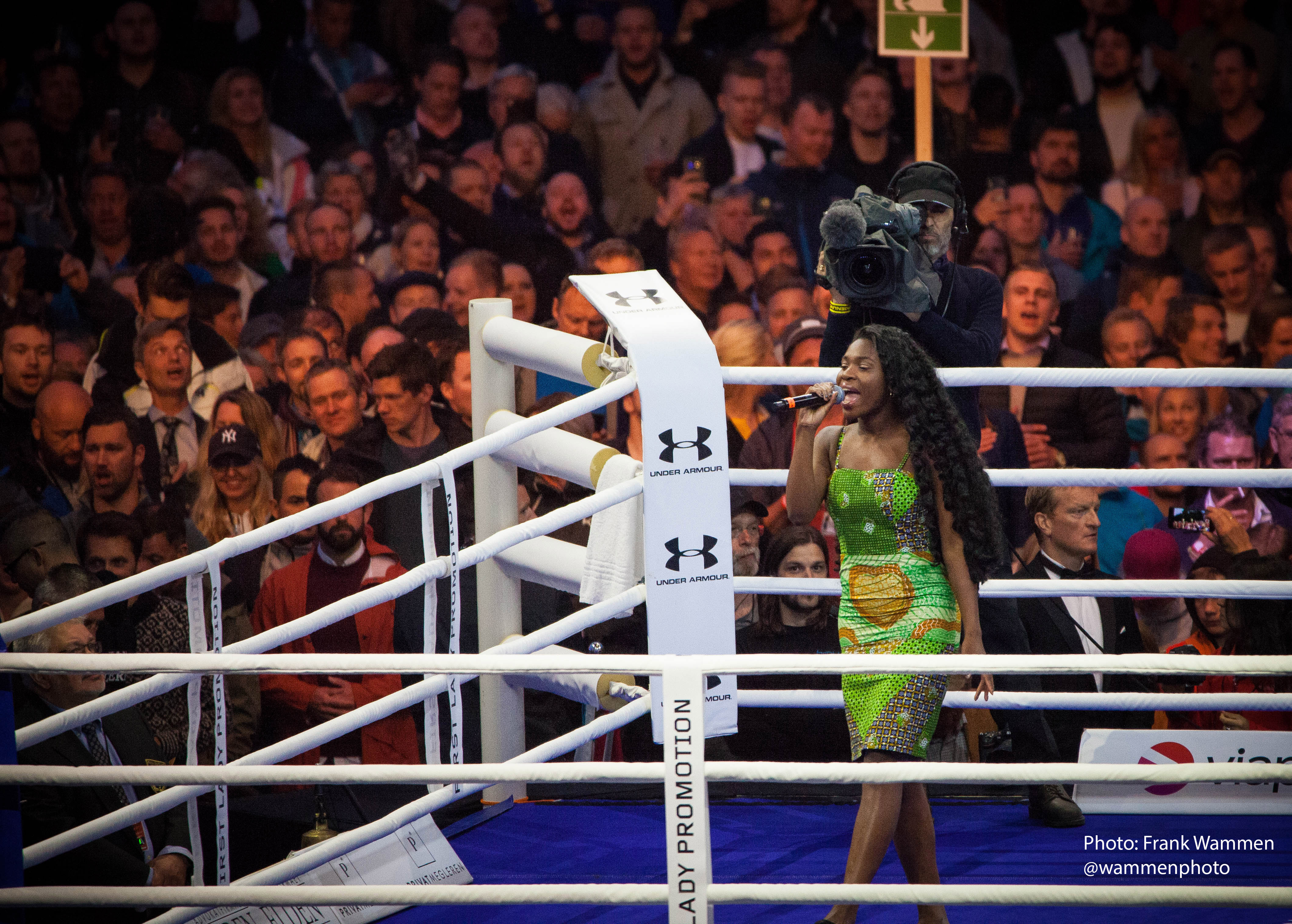 Myra performing «Nystemten» before Cecilia Brækhus boxing match at Koengen in Bergen, Norway.